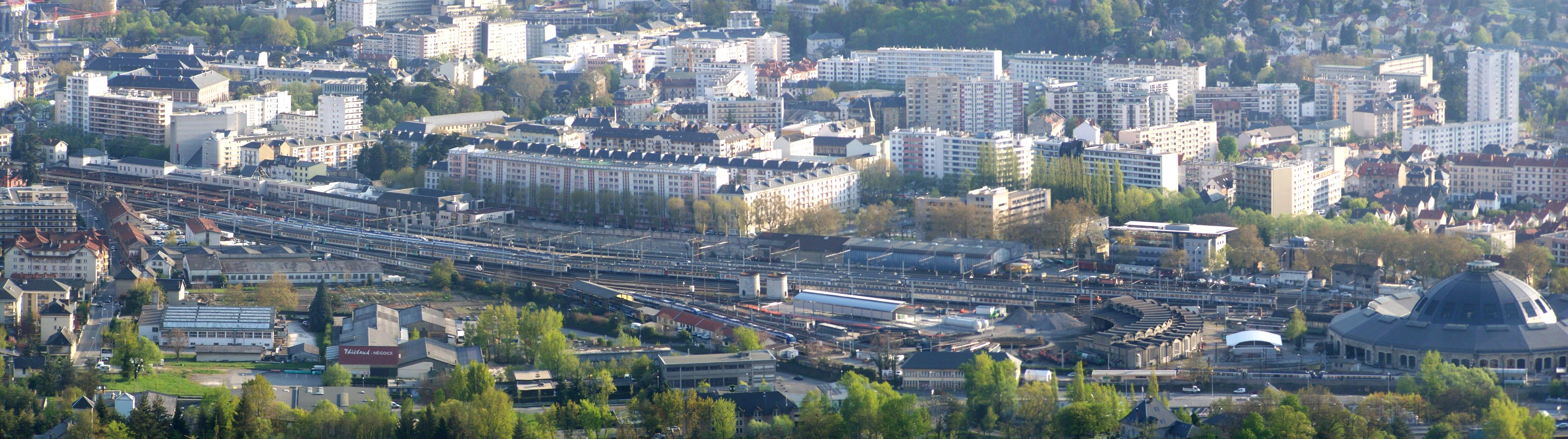 Broad view of city of Chambéry railway station, in Savoie, France.